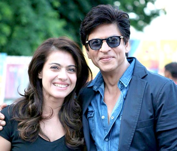 Shah Rukh Khan and Kajol on the sets of Dilwale (2015)